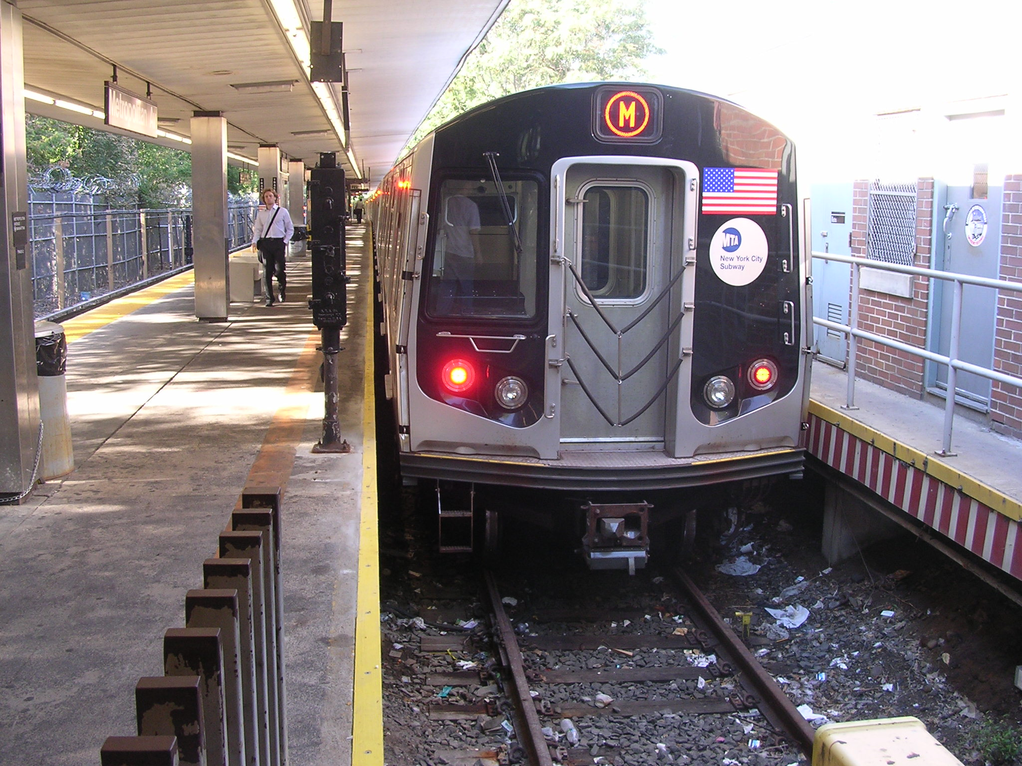 R160A 8421 standing at Metropolitan Avenue having just completed a run on the M train.